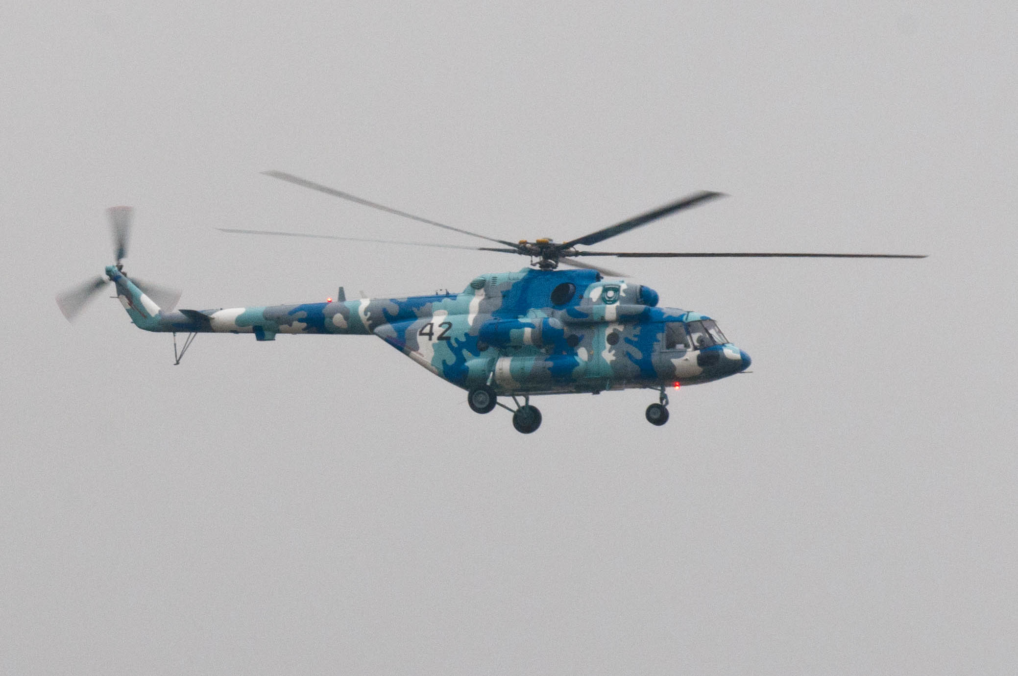 Celebrating the 20th year of independence in Turkmenistan